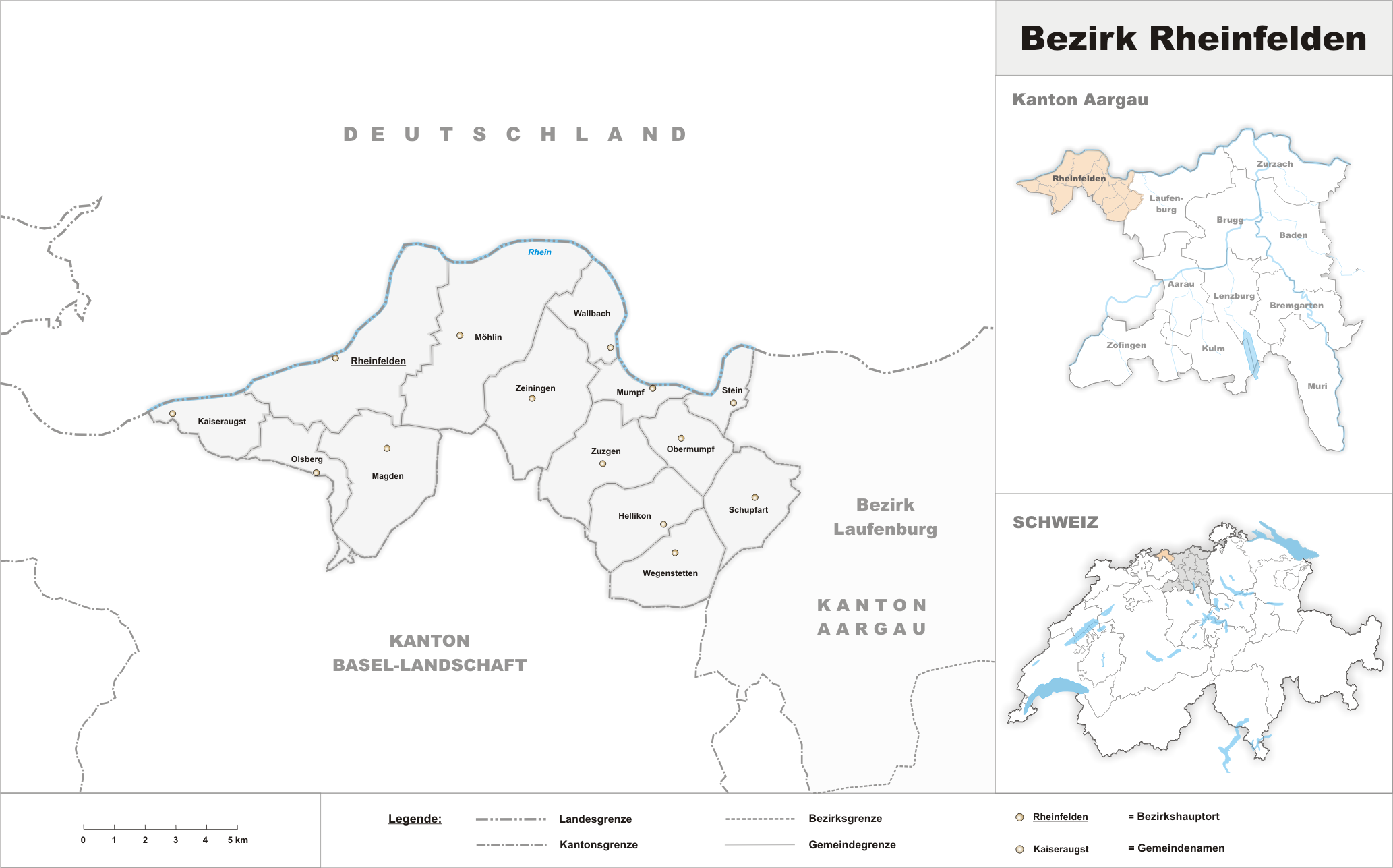 Municipalities in the district of Rheinfelden to 2010